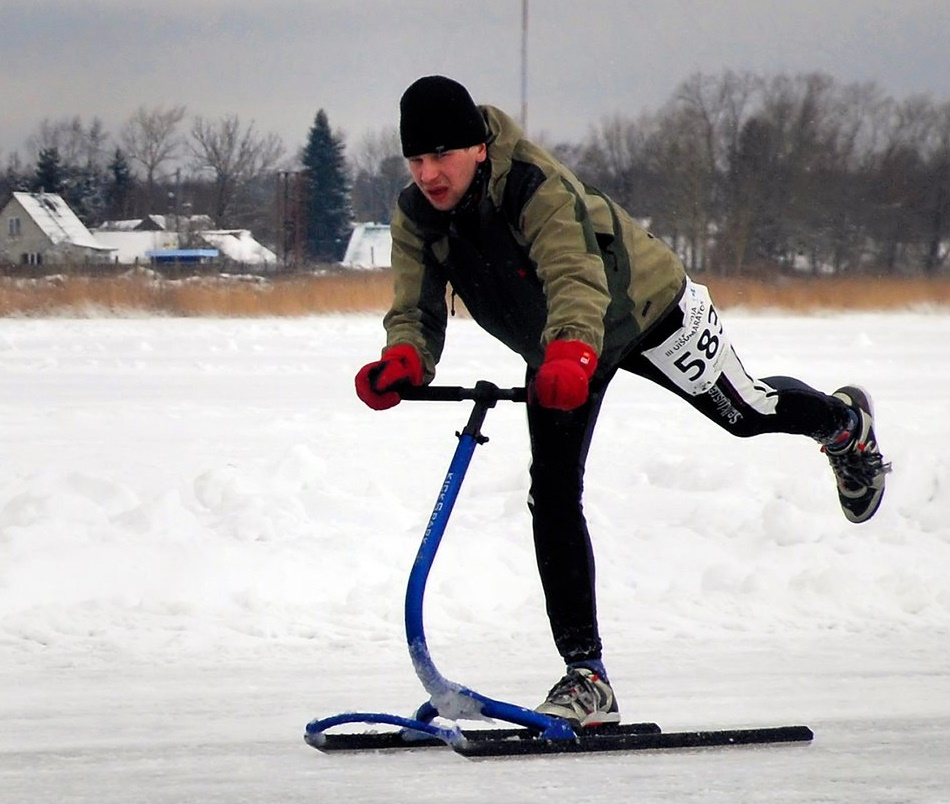 Racing on Kicksled in Estonian ice-skating Championship